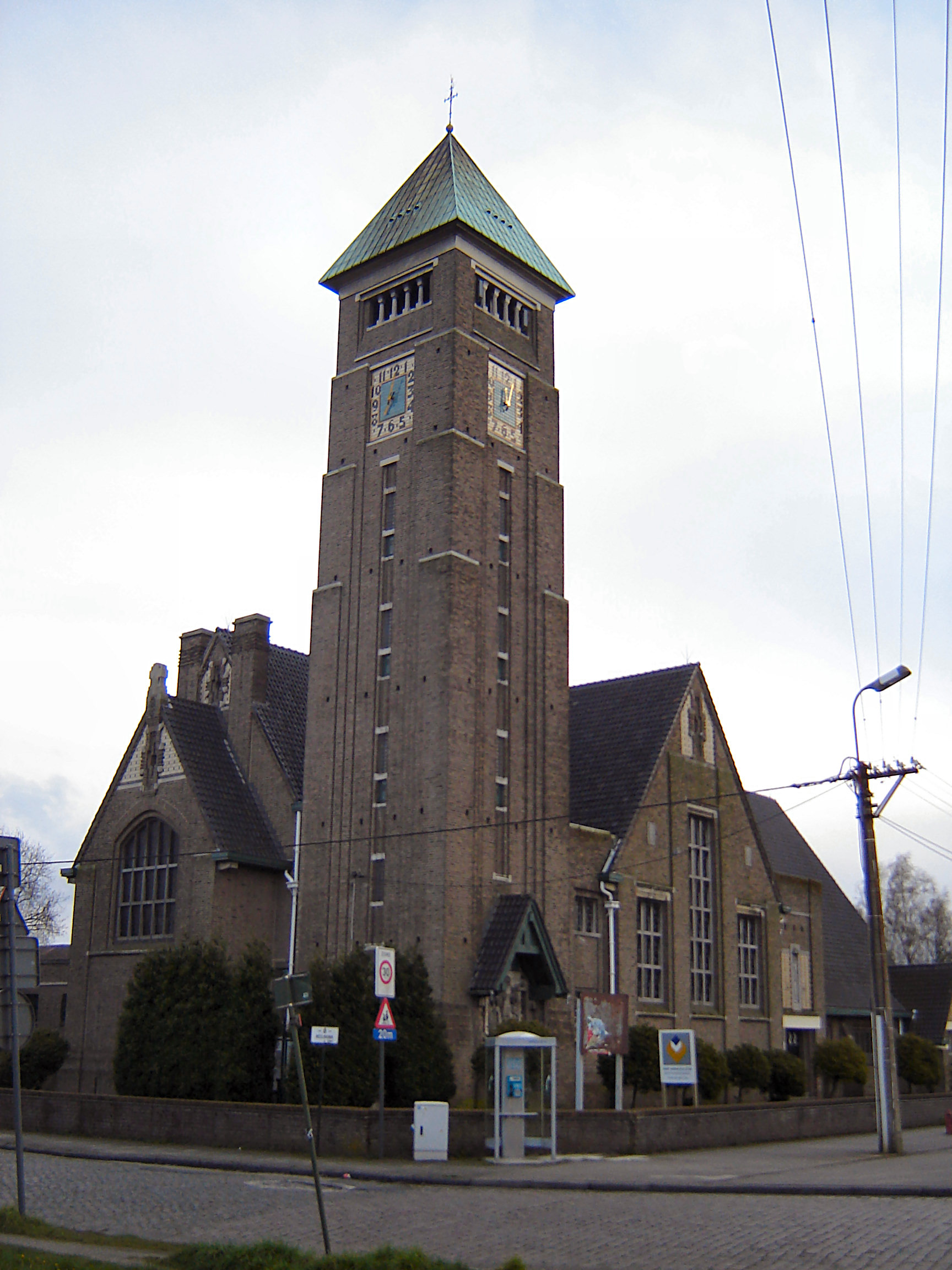 Church of Our Lady in the quarter Oude Bareel in Sint-Amandsberg. Sint-Amandsberg, Gent, East Flanders, Belgium